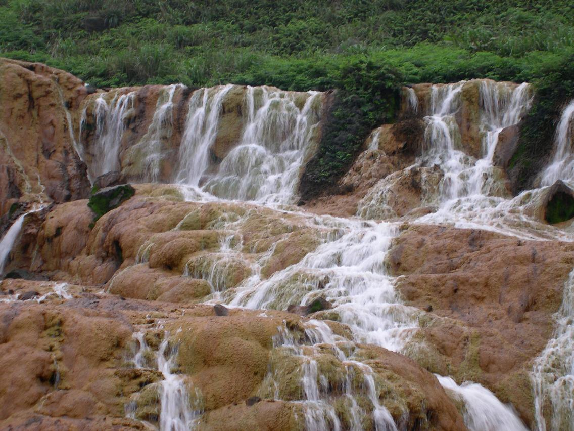 Golden Waterfall, JinGuaShi, Taiwan. Copper contained in the water gives the rocky bed of the river a golden color.